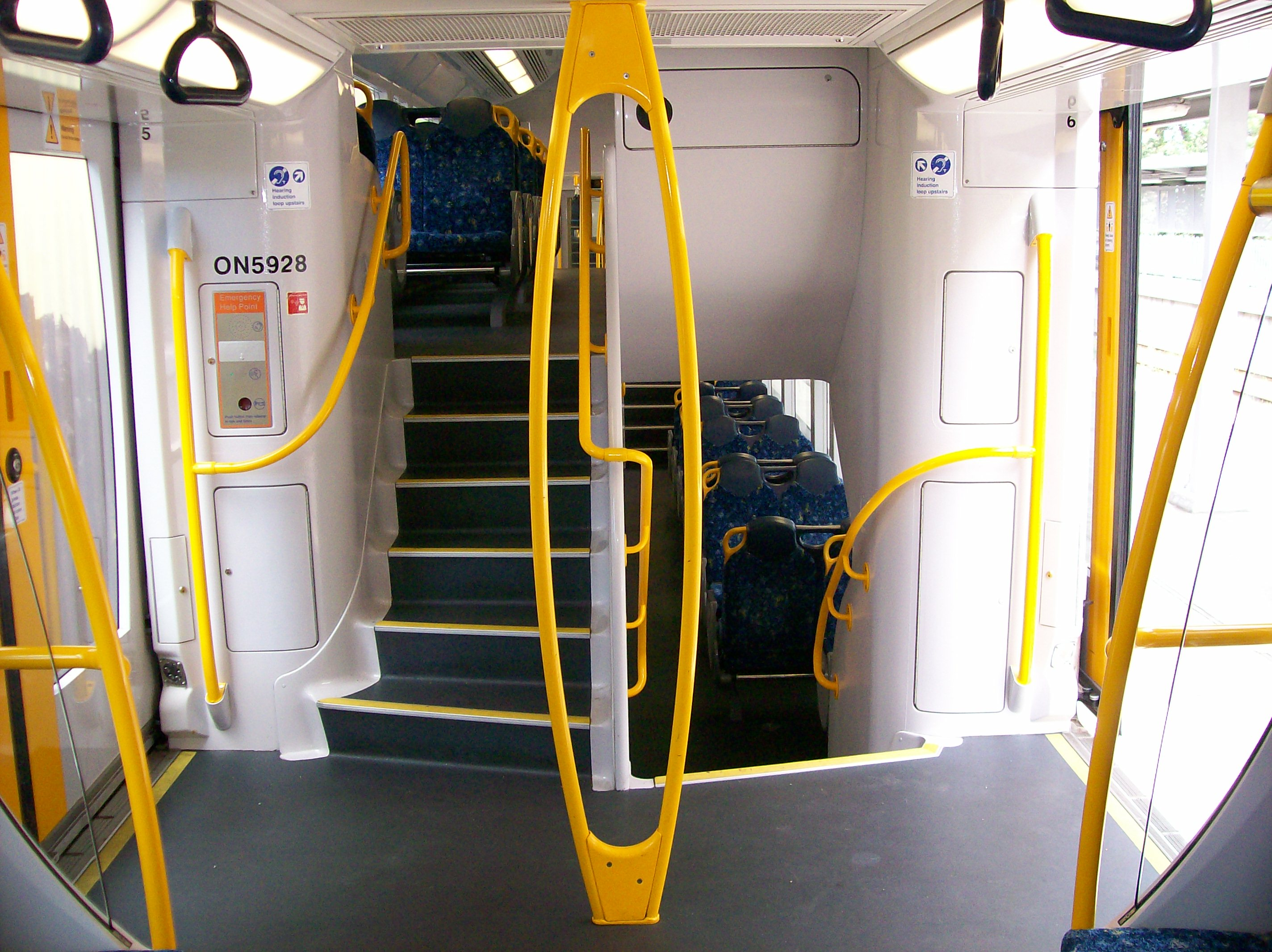 CityRail H Set stairs to upper and lower decks